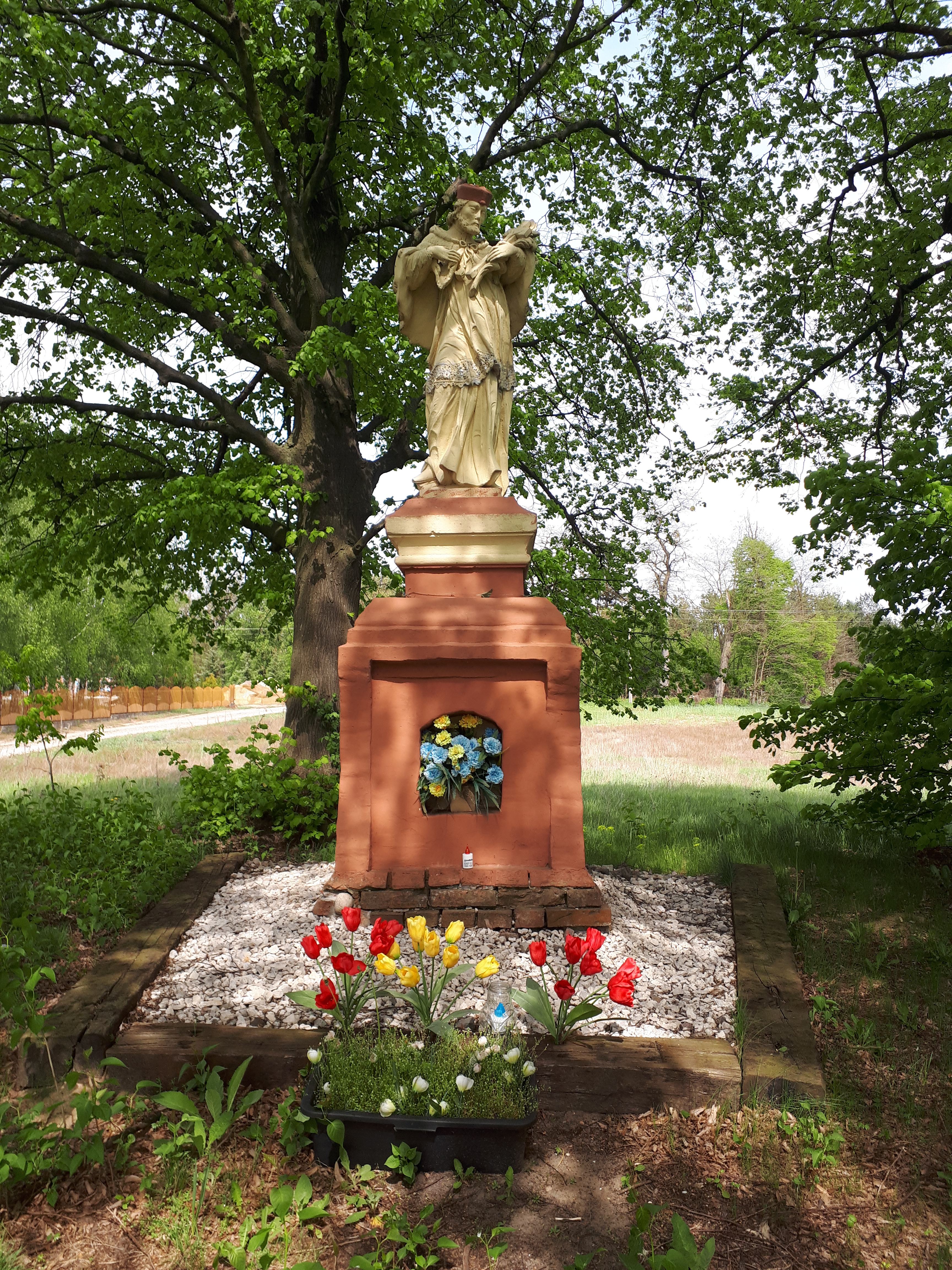 Monument of Jan Nepomucen in Regów Nowy